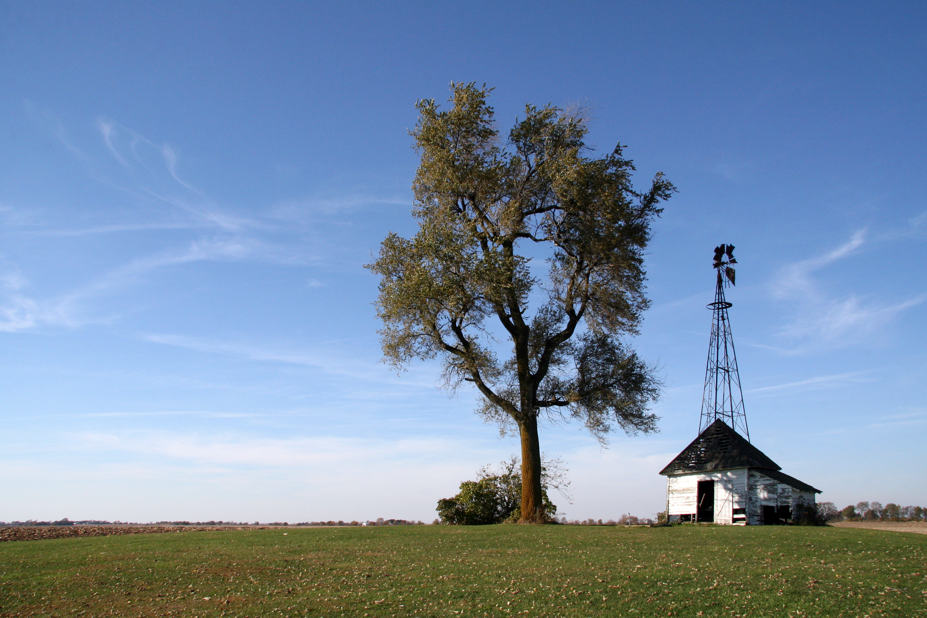 A windmill and pump house stand among harvested fields in West Point Township, White County, Indiana.